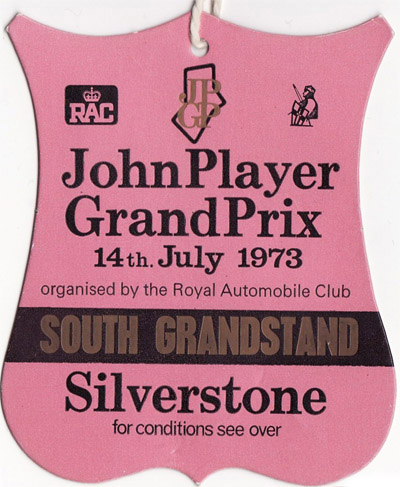 1973 British Grand Prix ticket